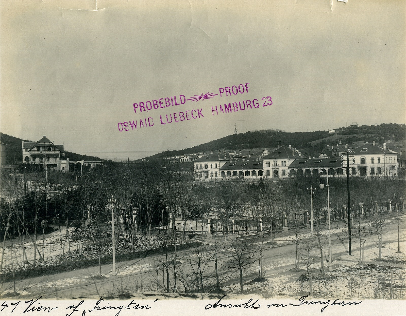 Tsingtau, corner of Bismarck Street and Lazarette Road, on the right bed-ward Building III of German Government Hospital, on the left residence of Governmental Pastor Ludwig Winter